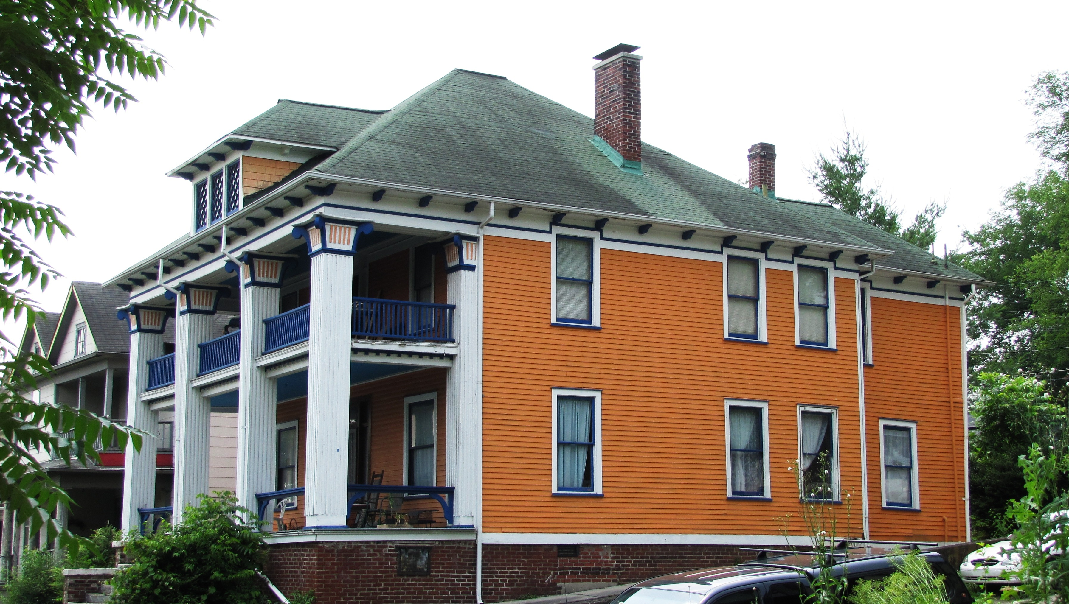 House at 131 East Oklahoma Avenue in Knoxville, Tennessee, USA. Built around 1910, it is a contributing property in the NRHP-listed Old North Knoxville Historic District.